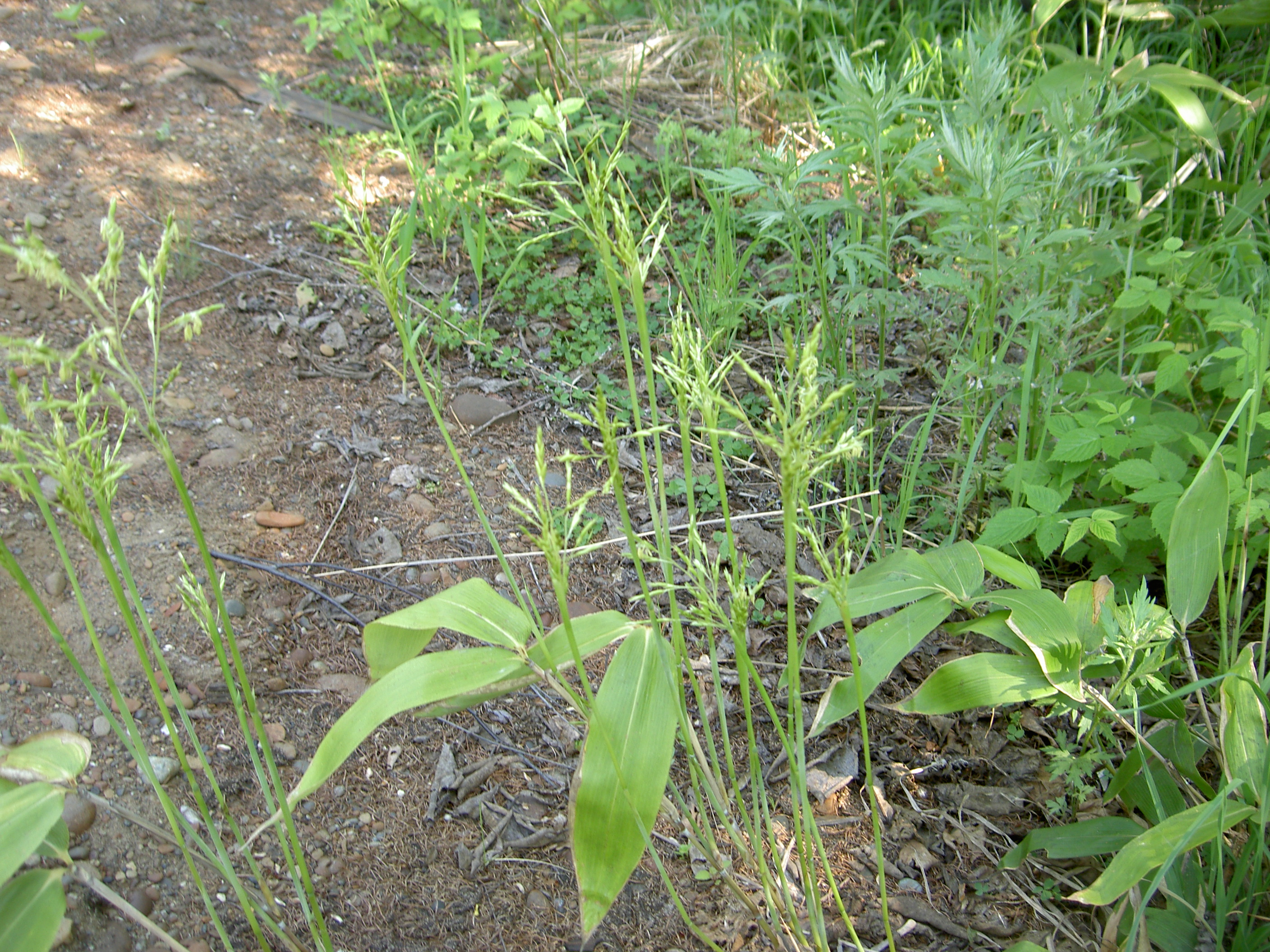 Flowering Sasa kurilensis. Sakhalin Oblast